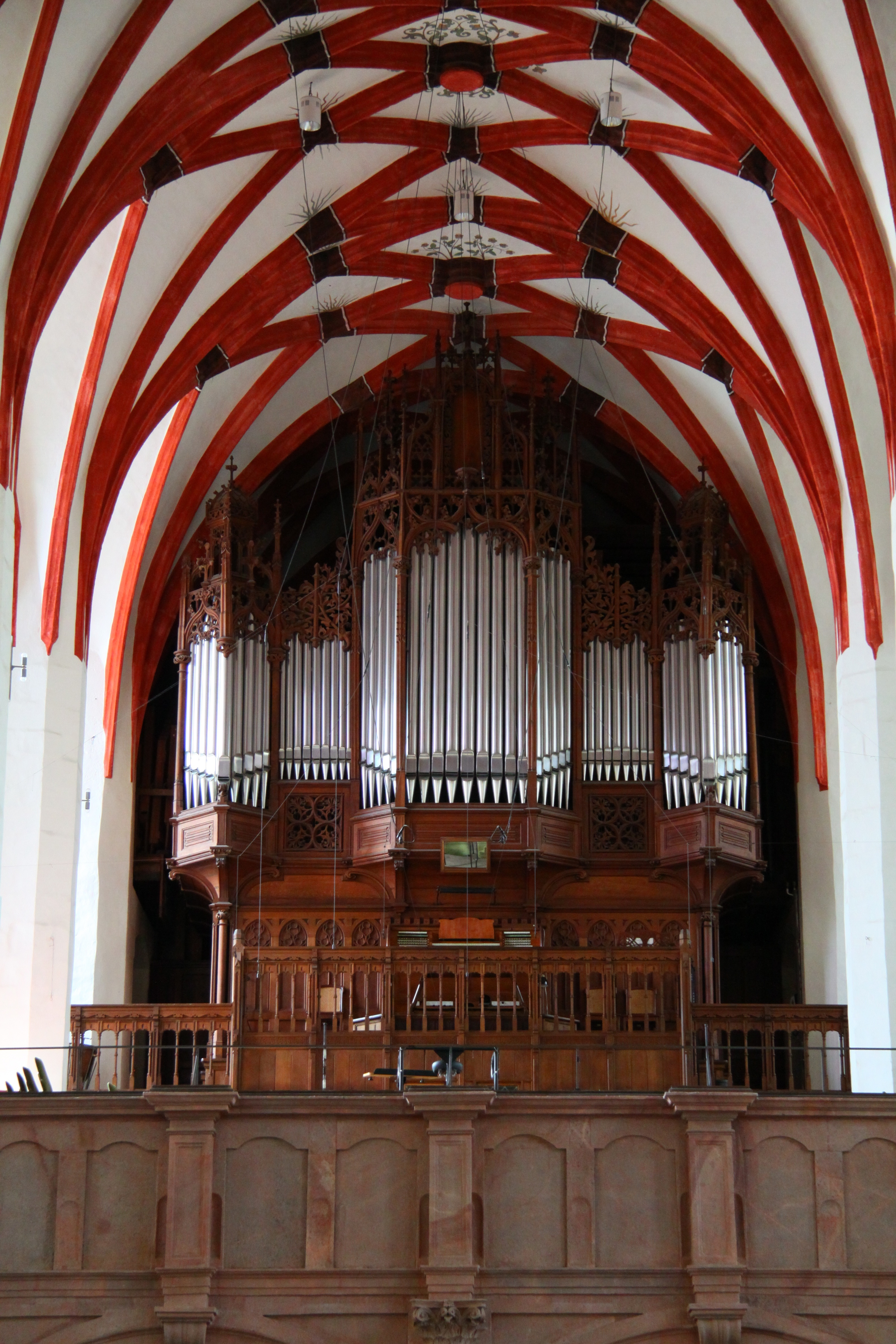 This image has been taken by Wikipedia-ce in late december of 2005 and is public domain. It shows the Sauer-organ of the church St. Thomas in Leipzig, Germany.